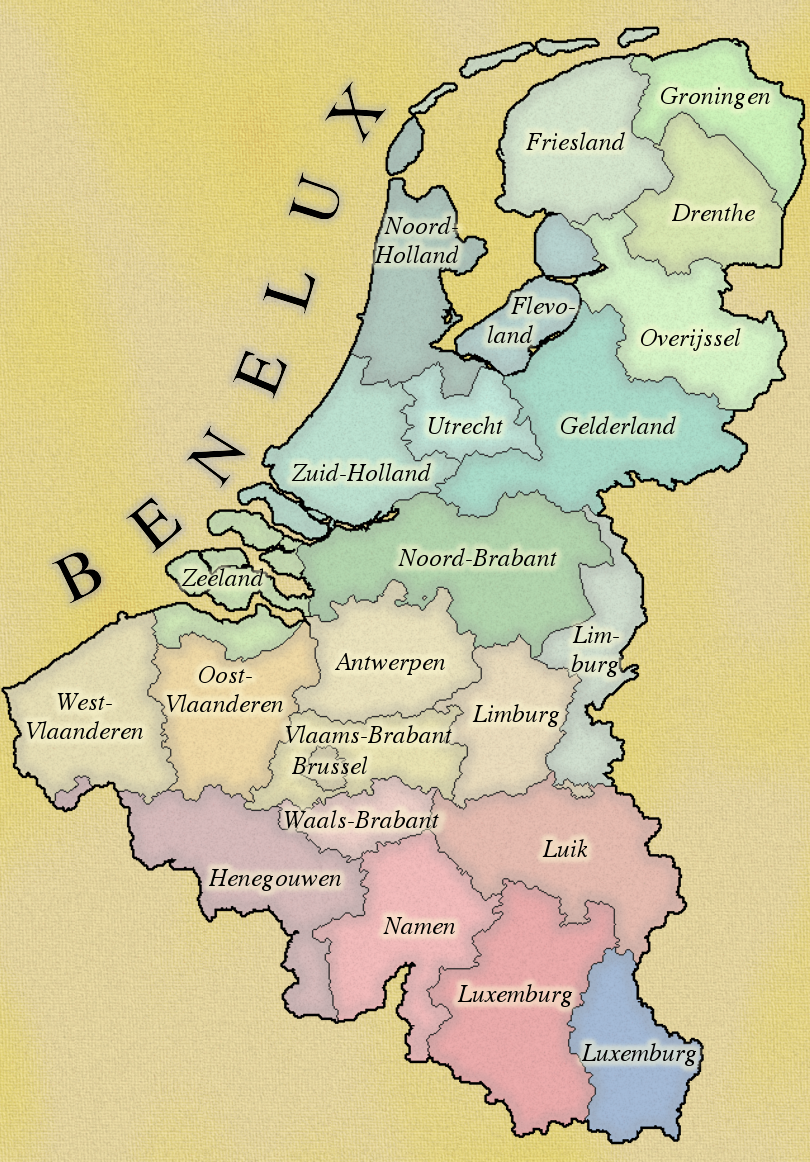 NUTS-2 regions of the Benelux